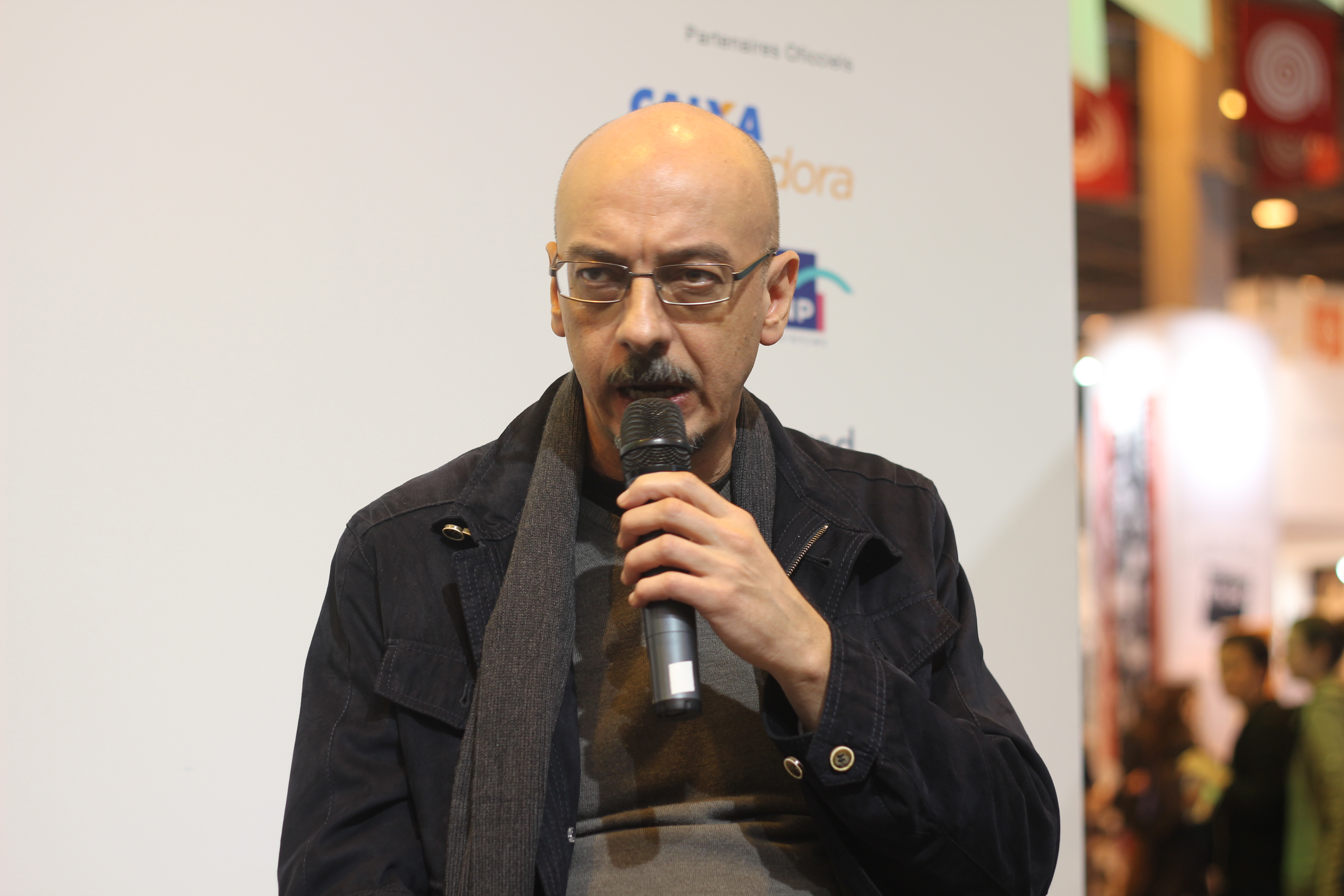 2015 Paris Book Fair, from 20 to 23 March 2015, Paris expo Porte de Versailles.